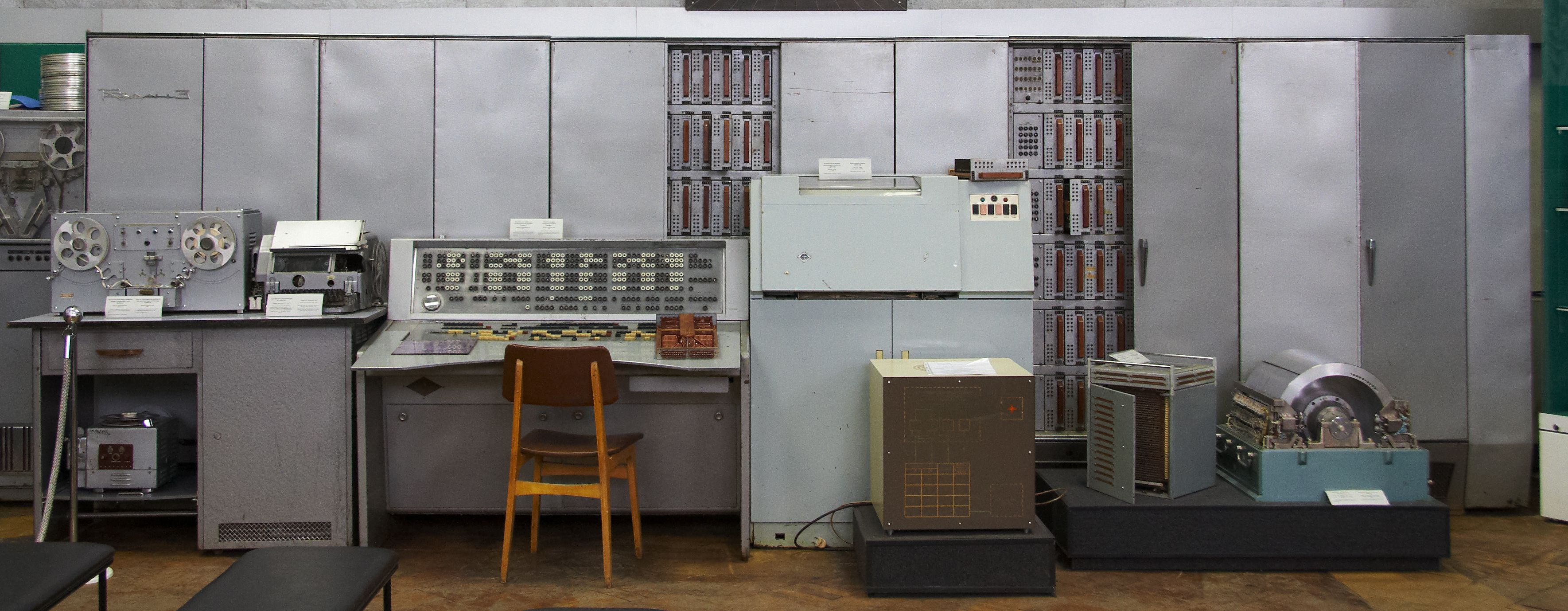 Razdan-3 Overview